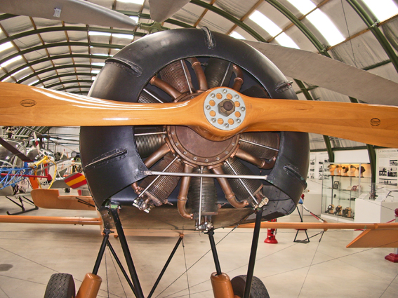 Cierva C.6 autogiro, engine closeup, in "Museo del Aire", Cuatro Vientos, Madrid, Spain. I am the author of this picture, and I'd desire everybody could see it freely in Wikipedia.